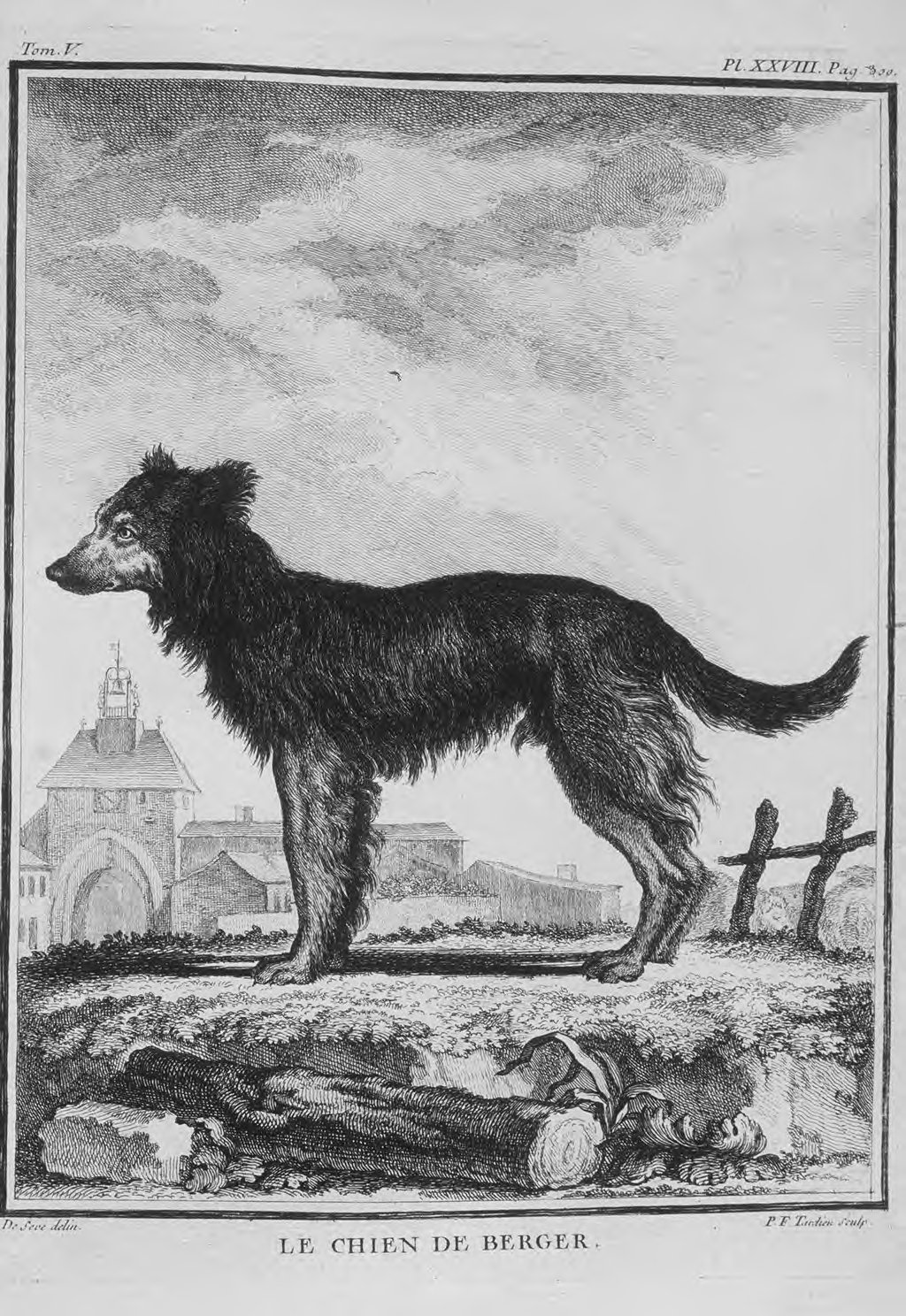 Herding dog